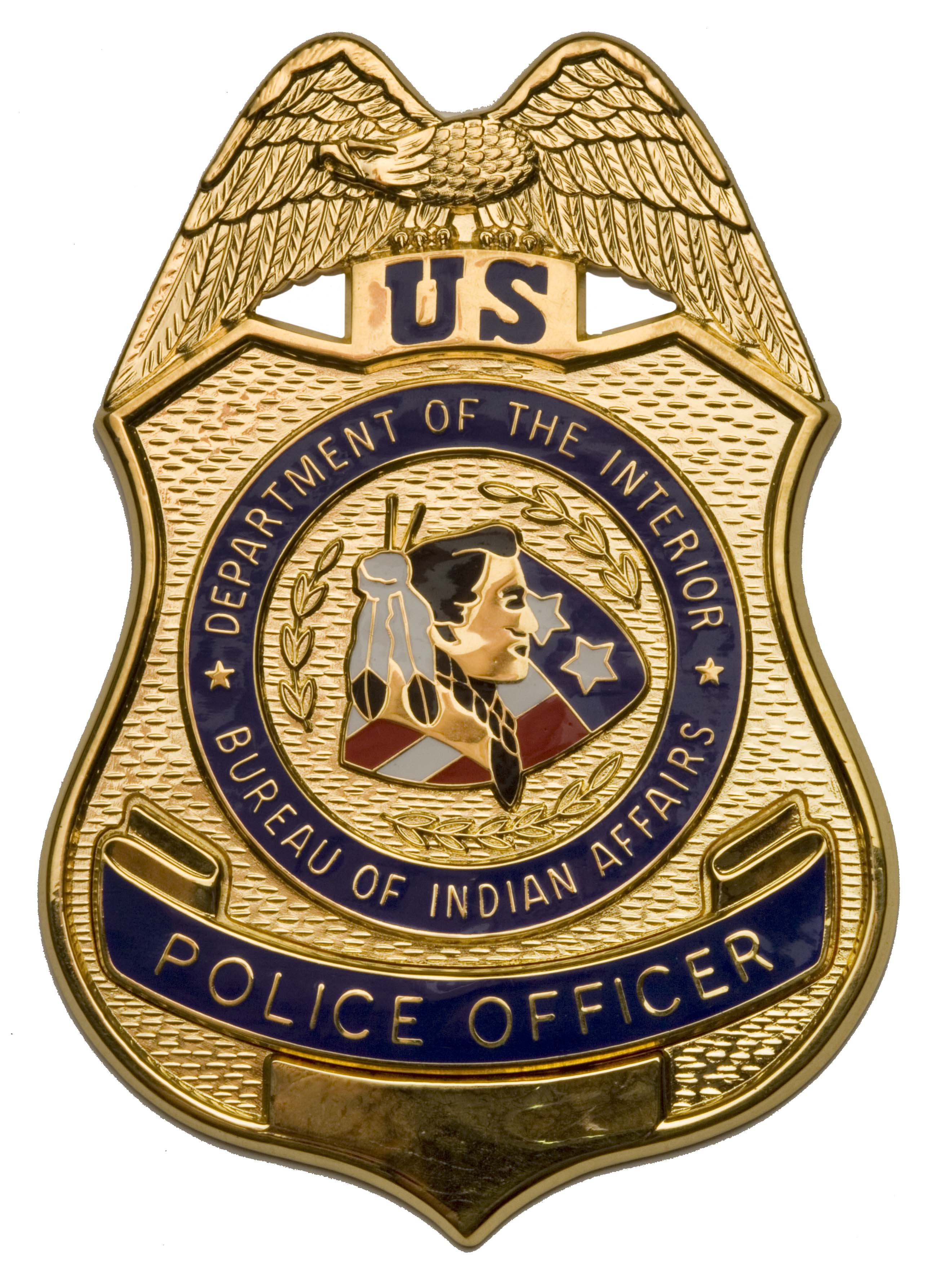 Bureau of Indian Affairs Police Officer badge